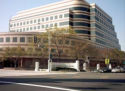 Modern office building next to the main studio lot of Sony Pictures Entertainment in Culver City. Photographed on April 16, 2005 by user Coolcaesar.